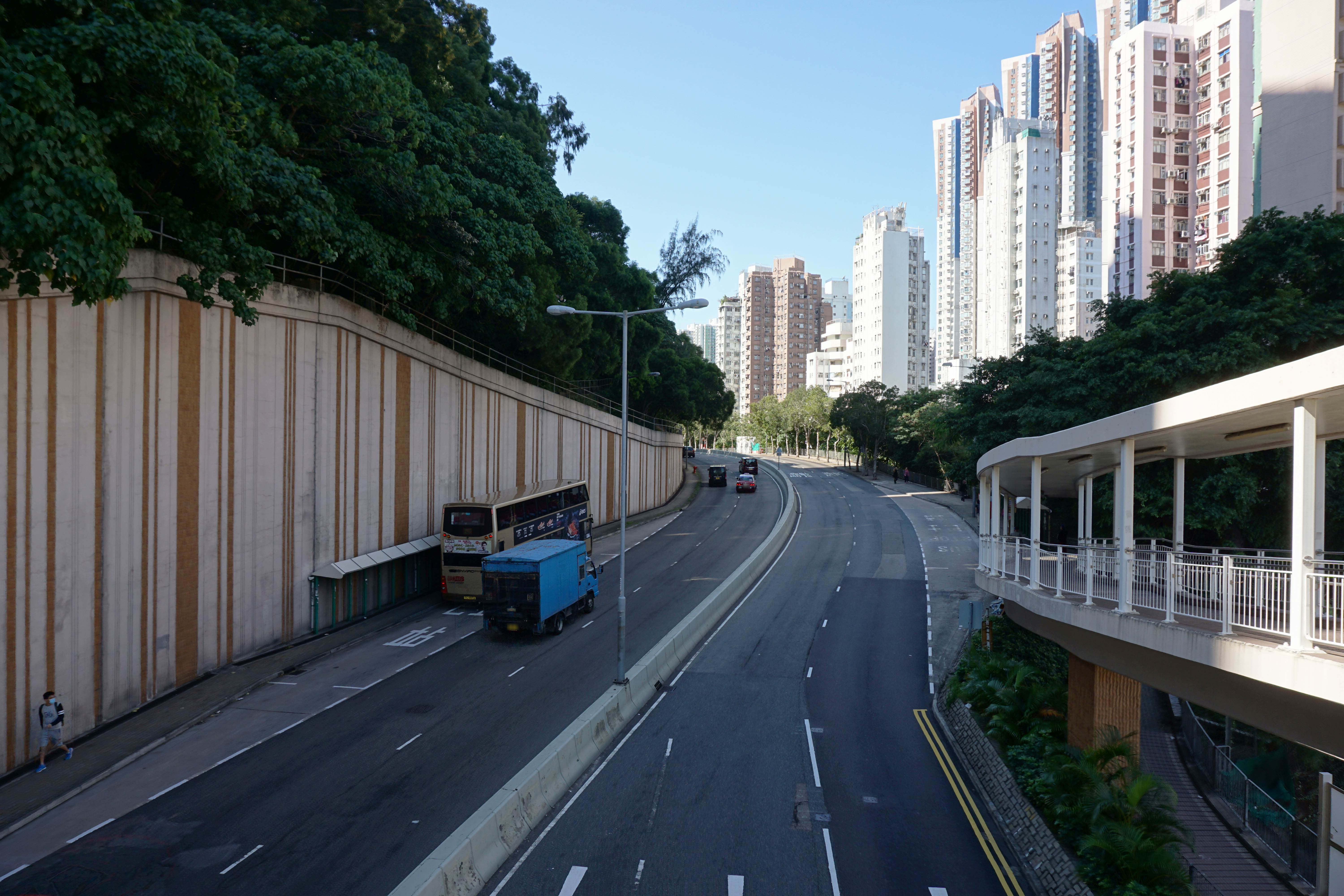 Bridge Road in Ap Lei Chau, Hong Kong.